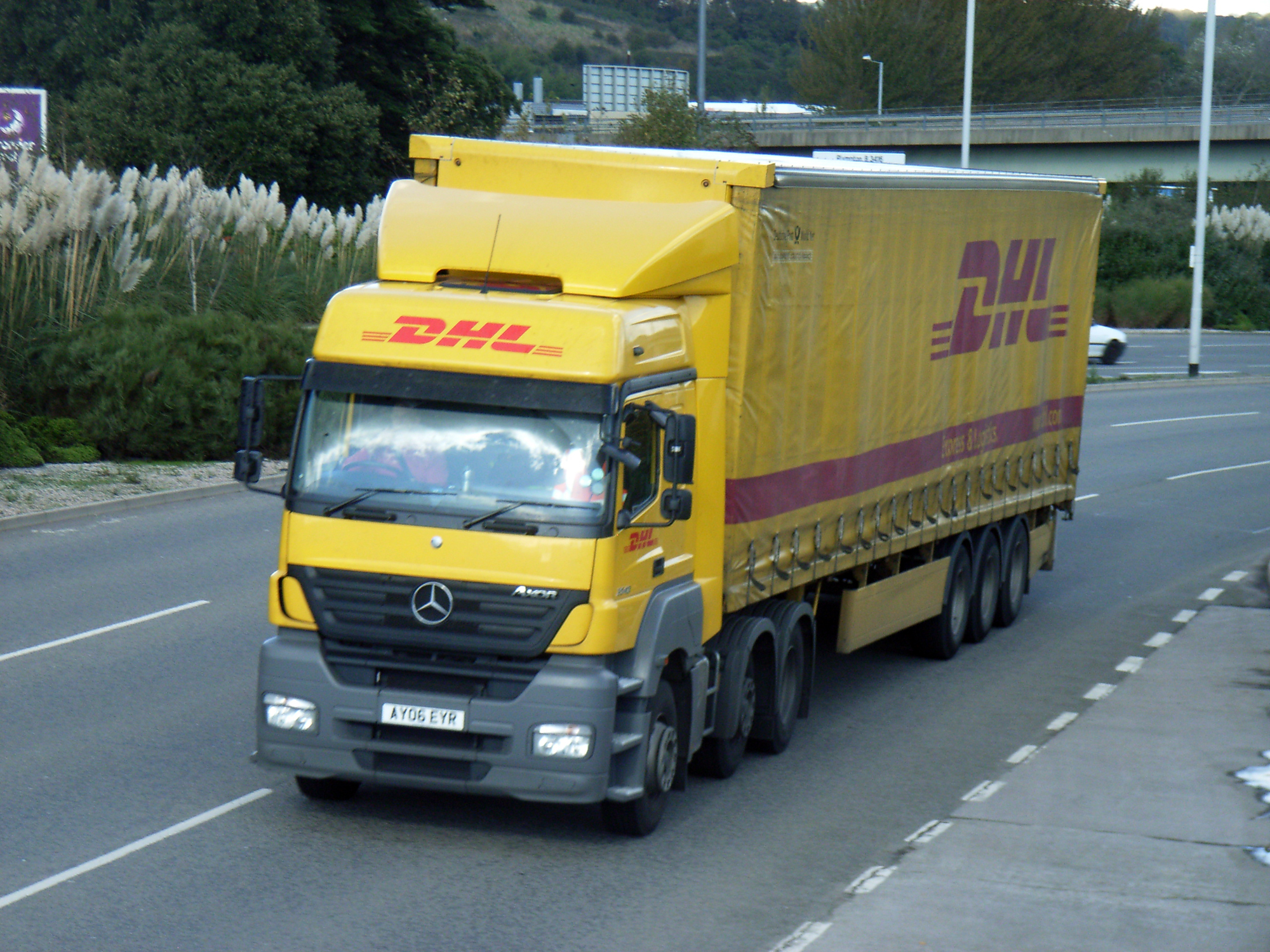 24 October 2006 Plymouth AY06EYR DHL MERCEDES AXOR 2543 LS HRS TRACTOR 11967cc (19/04/2006) DIESEL As Featured in On The Road Plymouth A 2 Z